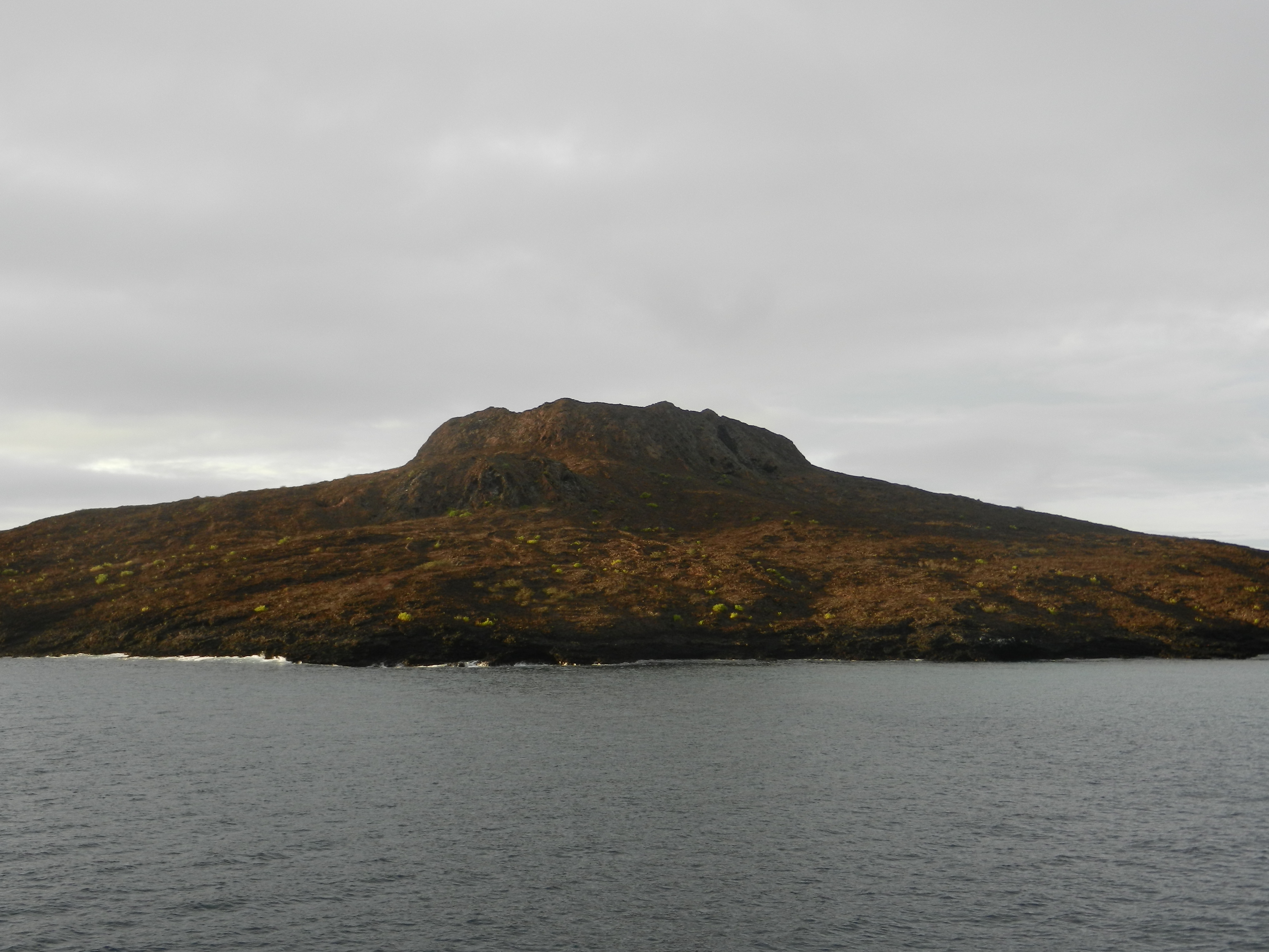 Chinese Hat island (Sombrero Chino) in Galapagos, off the south-east coast of Santiago island. The mound in the centre is a volcanic spatter cone (about 75 metres wide).